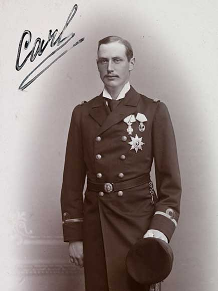 Prince Carl, the later King Haakon VII of Norway.